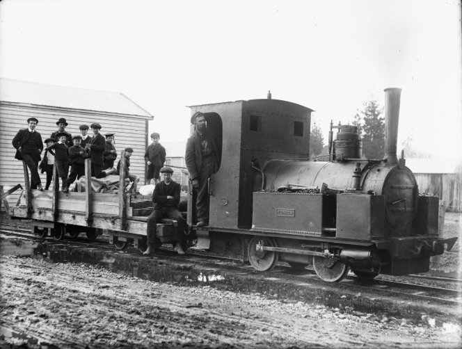 Men and boys on a private railway locomotive on the Takaka tramway, circa 1900. Photograph taken by Frederick Nelson Jones. Note on back of file print reads: "Private railway loco - built at Anchor Foundry, Nelson ca 1900".